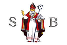 Flag of the Republic of Dubrovnik.